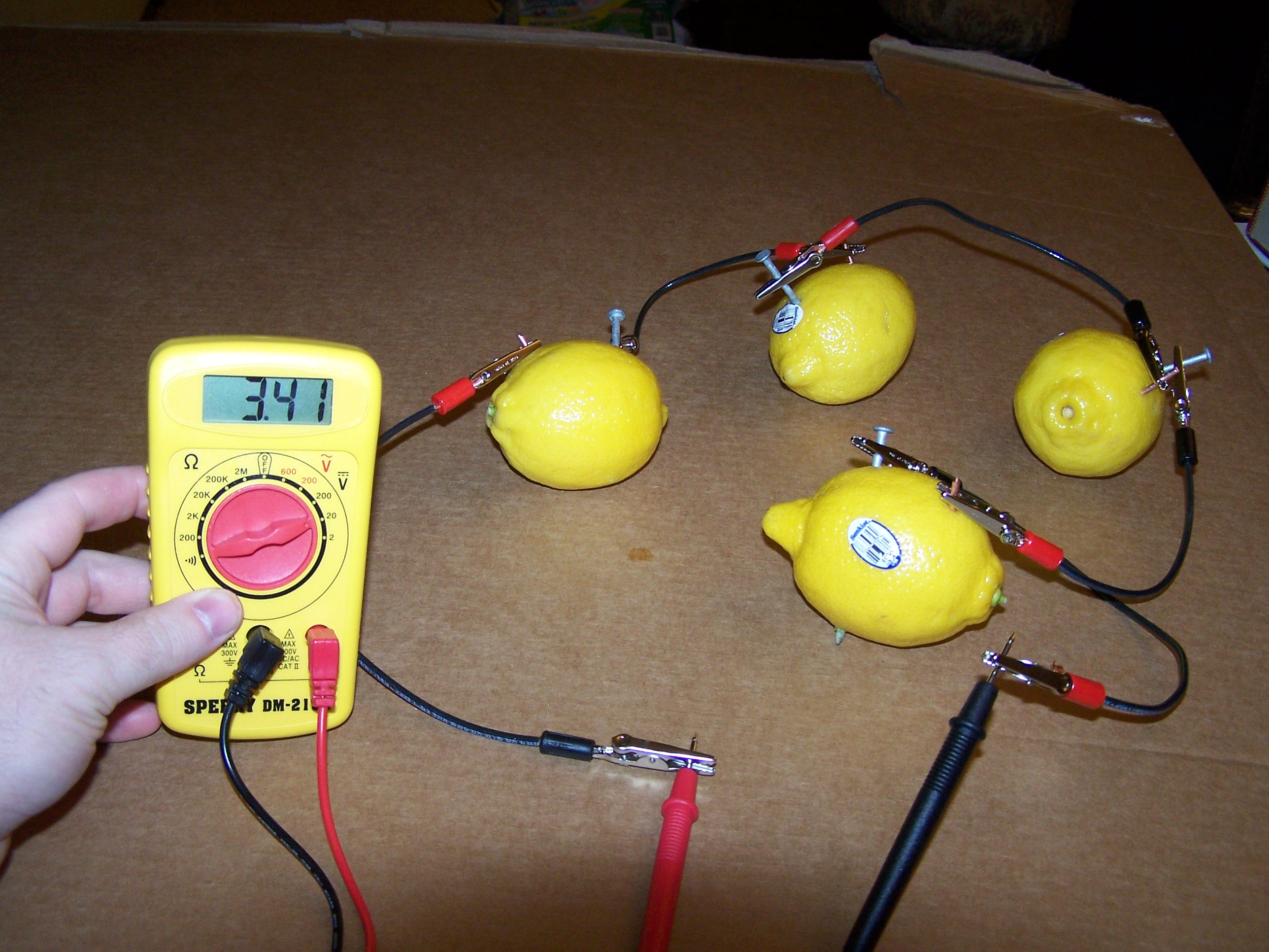 4 lemon circuit